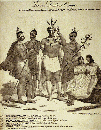 Six Osage Native Americans, 1827